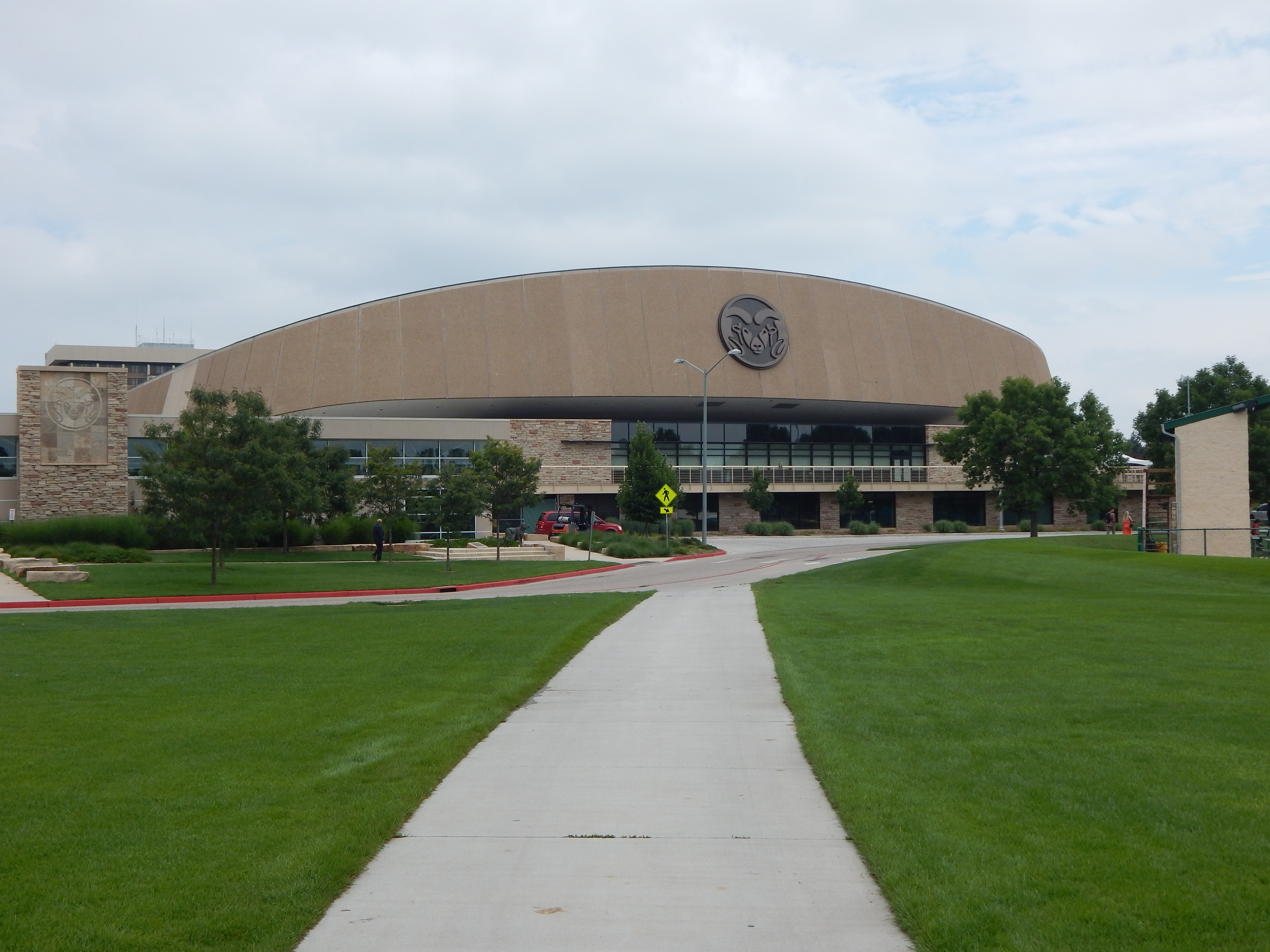 Moby Arena, Colorado State University, Fort Collins, CO